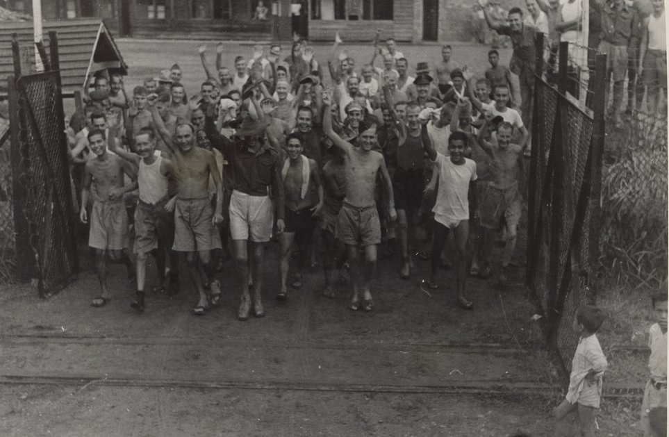 Allied prisoners walk through the prison gates of Changi Prison (or possibly Sime Road Camp), Singapore, waving and smiling.